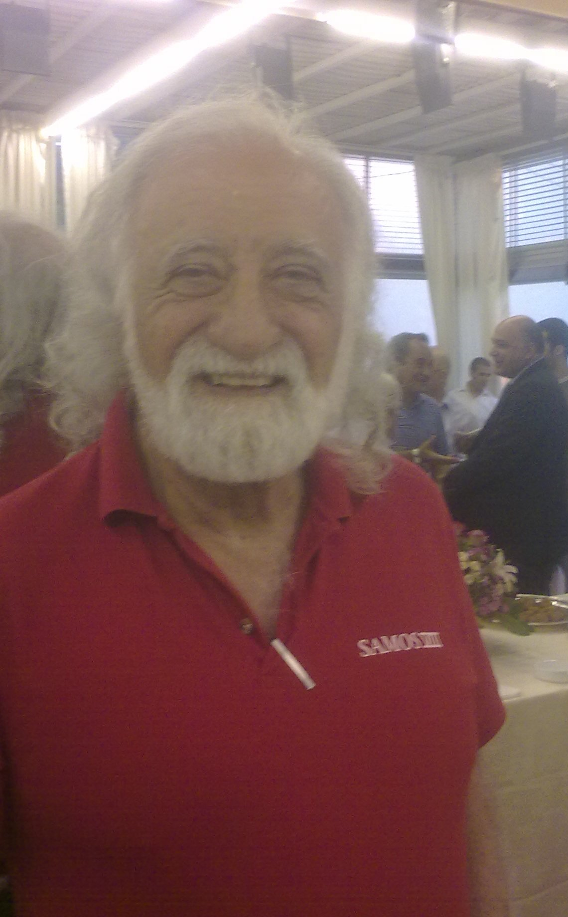 Prof. Yale Patt At the American University of Technology - Lebanon